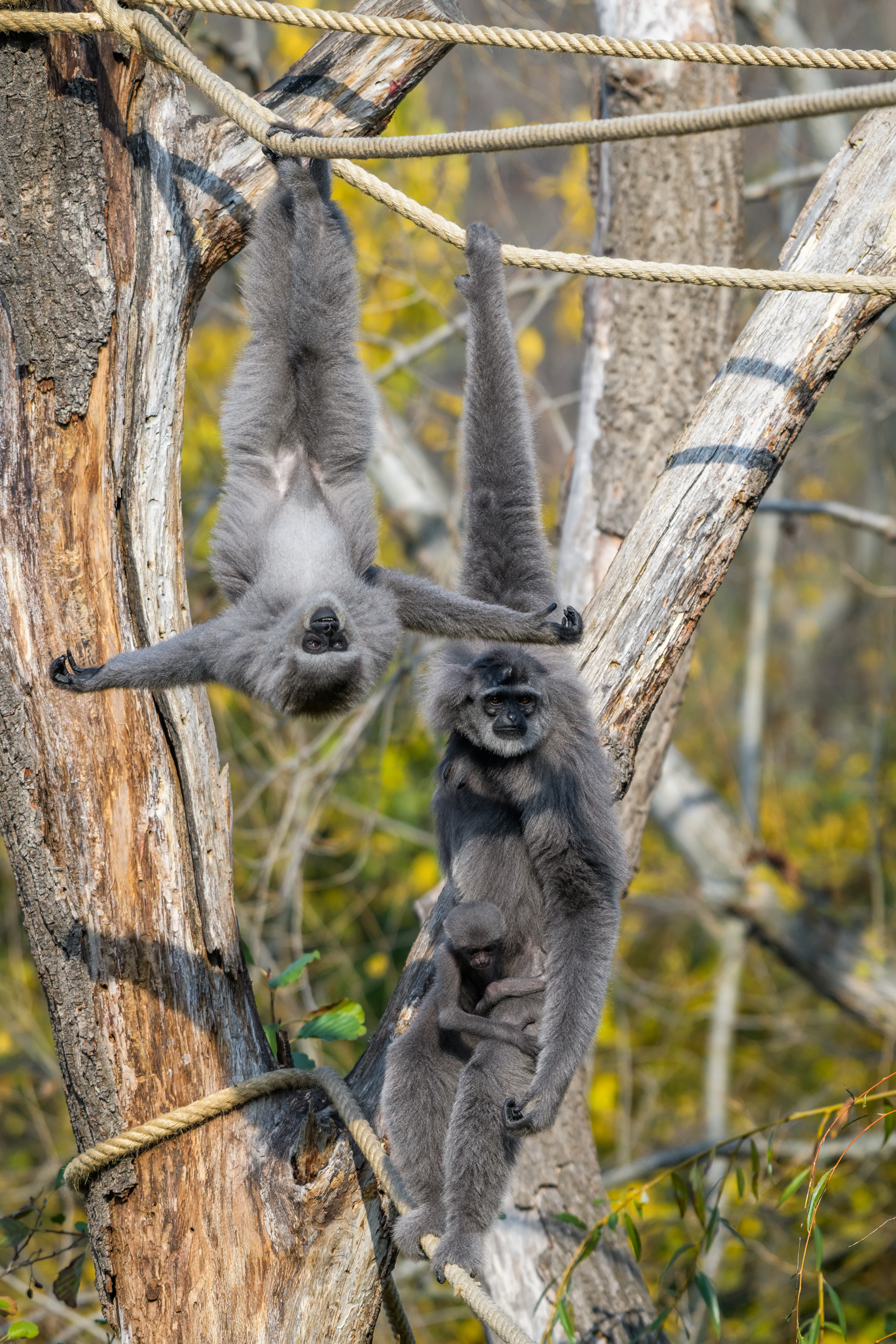 Family of silvery gibbon, Prague Zoo